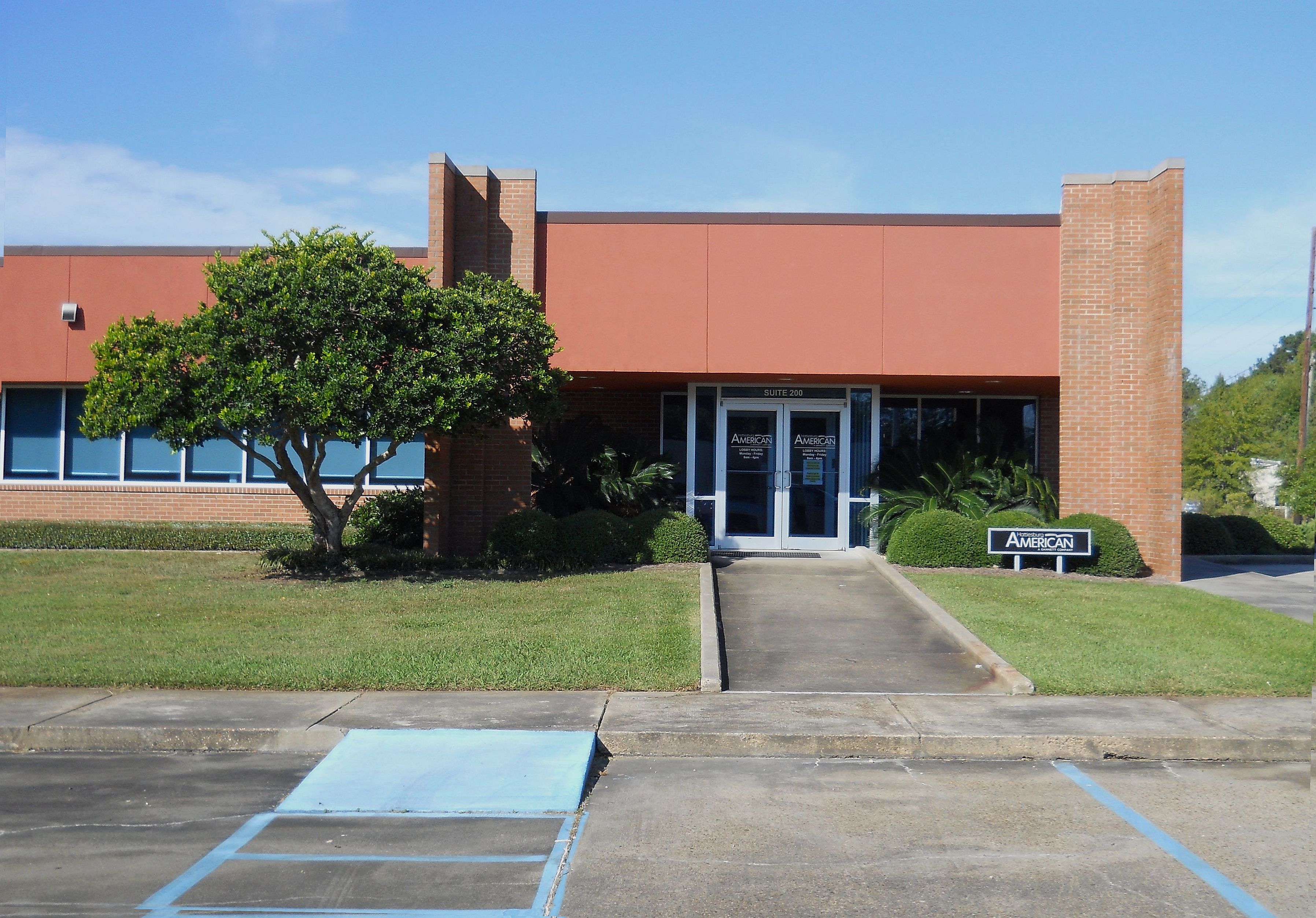 Gannett Company Hattiesburg American newspaper building at 4200 Mamie Street, Hattiesburg, MS